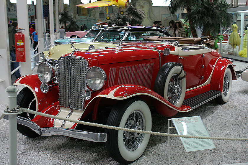 1932 Auburn 12-161. On a break of a classic car rallye we visited the Museum Sinsheim, Germany